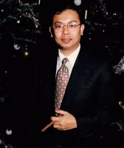 Mr. Dennis Funa Profile Picture